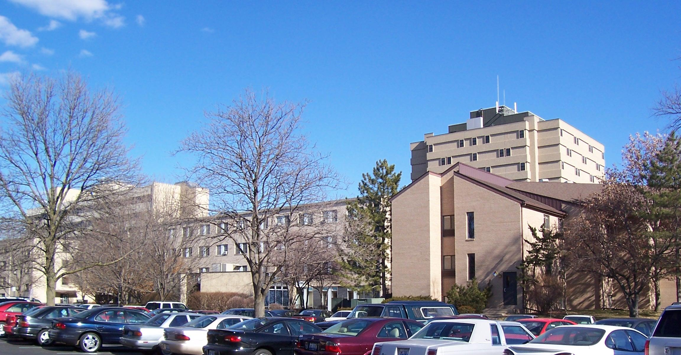 Bradley University dormitories facing Elmwood Street between Elmwood and University Streets, Peoria, Illinois. From left to right: Wyckoff Hall, Harper Hall (in back), Heitz Hall (center), Elmwood Hall (right foreground), Geisert Hall (top right background) Category:Bradley University Category:Images of Peoria, Illinois